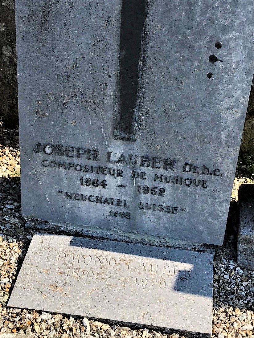 Joseph Lauber fev 2020 tomb stone. Saint-Aubin-Sauges.